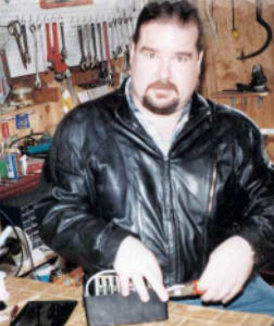 Craig Alan Kestner finishing the first Drumometer prototype in 1999.